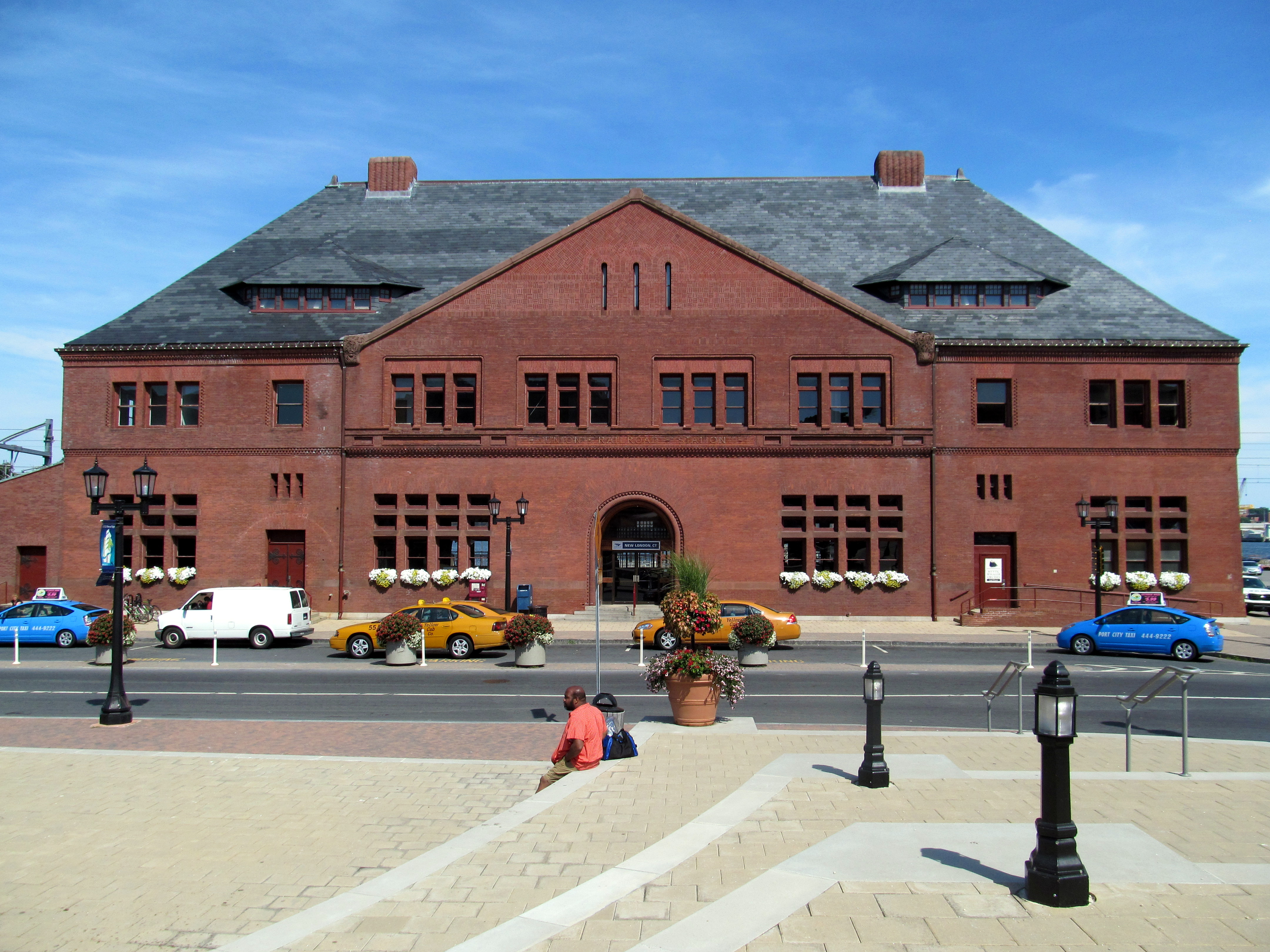 New London Union station viewed from the New London Parade